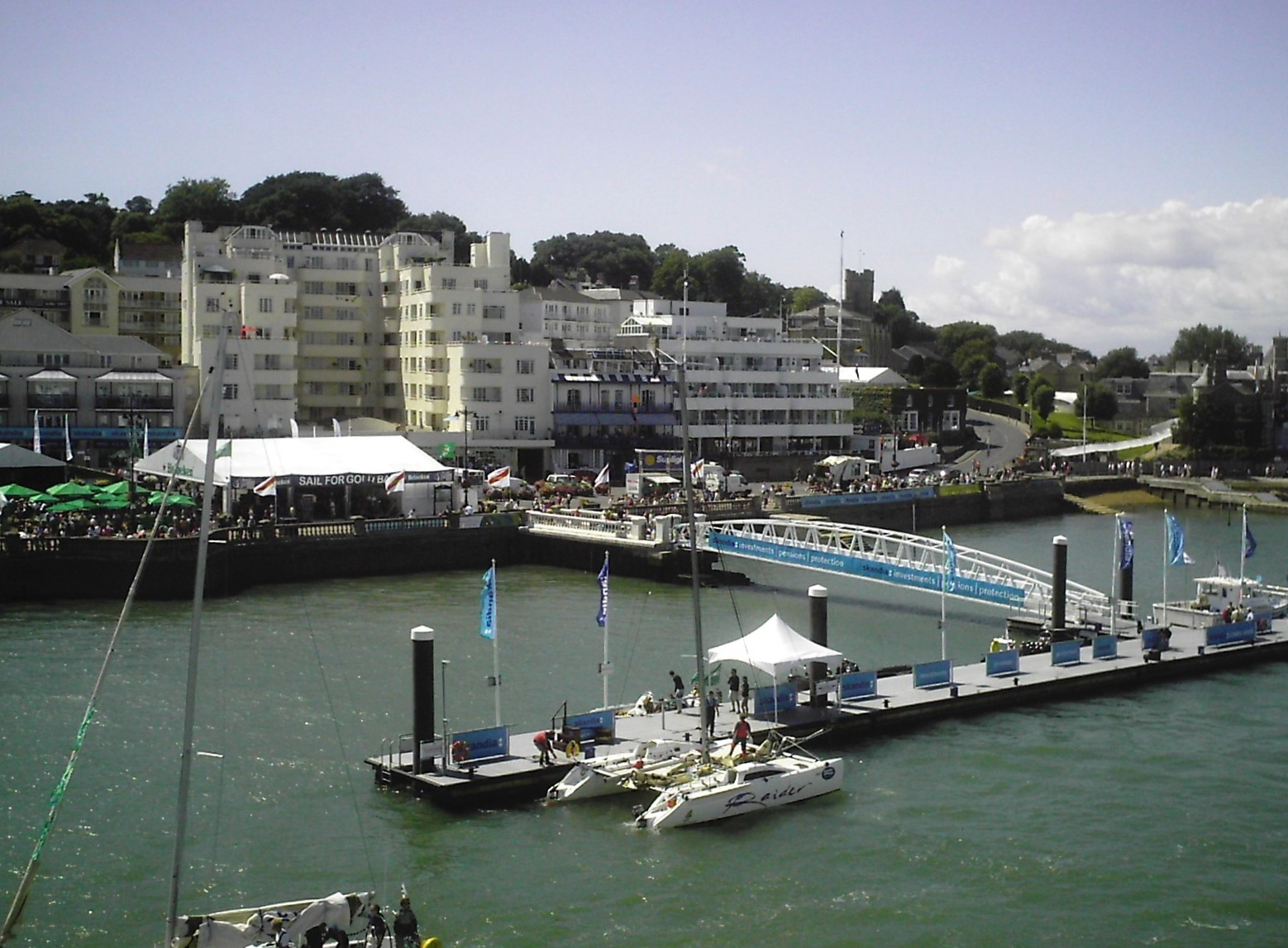 Cowes Parade, seen during Cowes Week in 2007. The photo was taken from the Red Funnel ferry as it approached its dock at East Cowes.